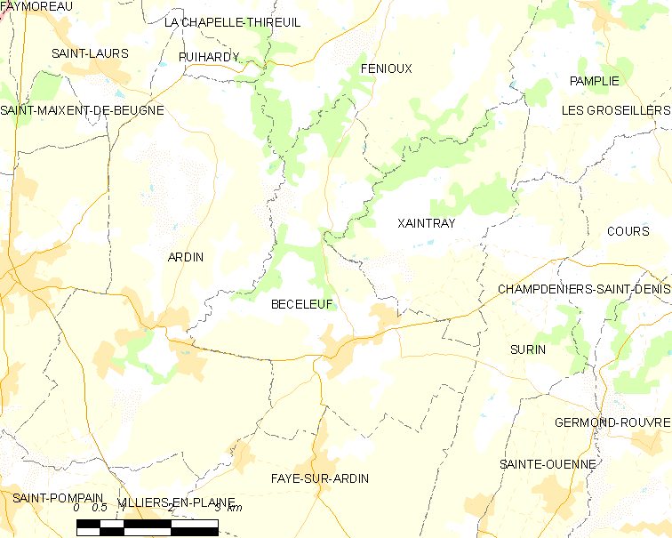 Map of French municipality Béceleuf